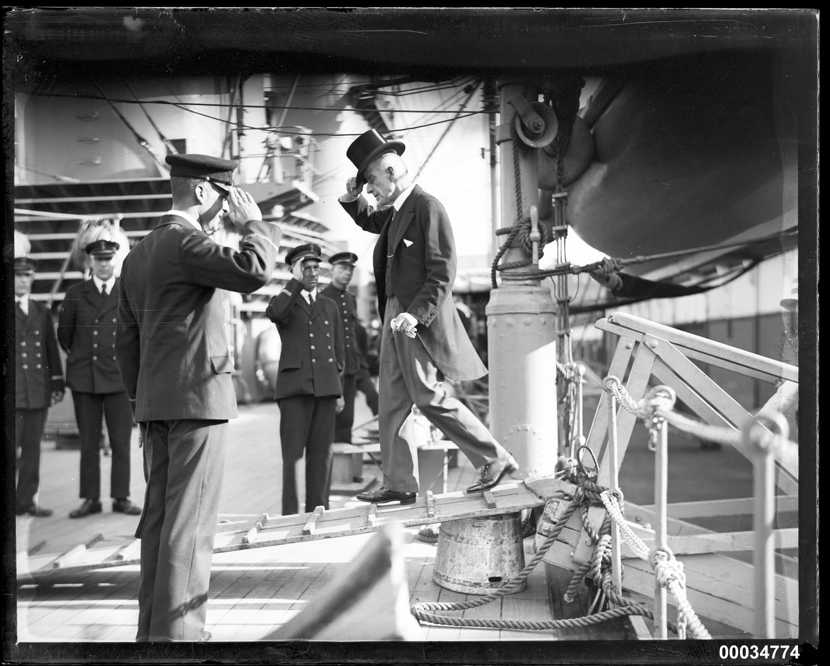 The Koninklijke Marine (Royal Netherlands Navy) including HNLMS JAVA, HNLMS EVERSTEN and HNLMS DE RUYTER arrived in Sydney on 3 October 1930. The ships berthed in West Circular Quay and The Sydney Morning Herald reported on the 'unfamiliar spectacle' of the Dutch squadron arrival. On 10 October, the squadron hosted a reception on board JAVA 'as a return for the hospitality they had received while in Sydney'. The SMH reported that distinguished guests were greeted by the Dutch Consul-General P E Teppema, Madame Teppema and Rear-Admiral Kayser. This photo is part of the Australian National Maritime Museum’s Samuel J. Hood Studio collection. Sam Hood (1872-1953) was a Sydney photographer with a passion for ships. His 60-year career spanned the romantic age of sail and two world wars. The photos in the collection were taken mainly in Sydney and Newcastle during the first half of the 20th century. The ANMM undertakes research and accepts public comments that enhance the information we hold about images in our collection. This record has been updated accordingly. Photographer: Samuel J. Hood Studio Collection Object no. 00034774 Check out our blog on naval visits to Sydney bit.ly/MTtR5H